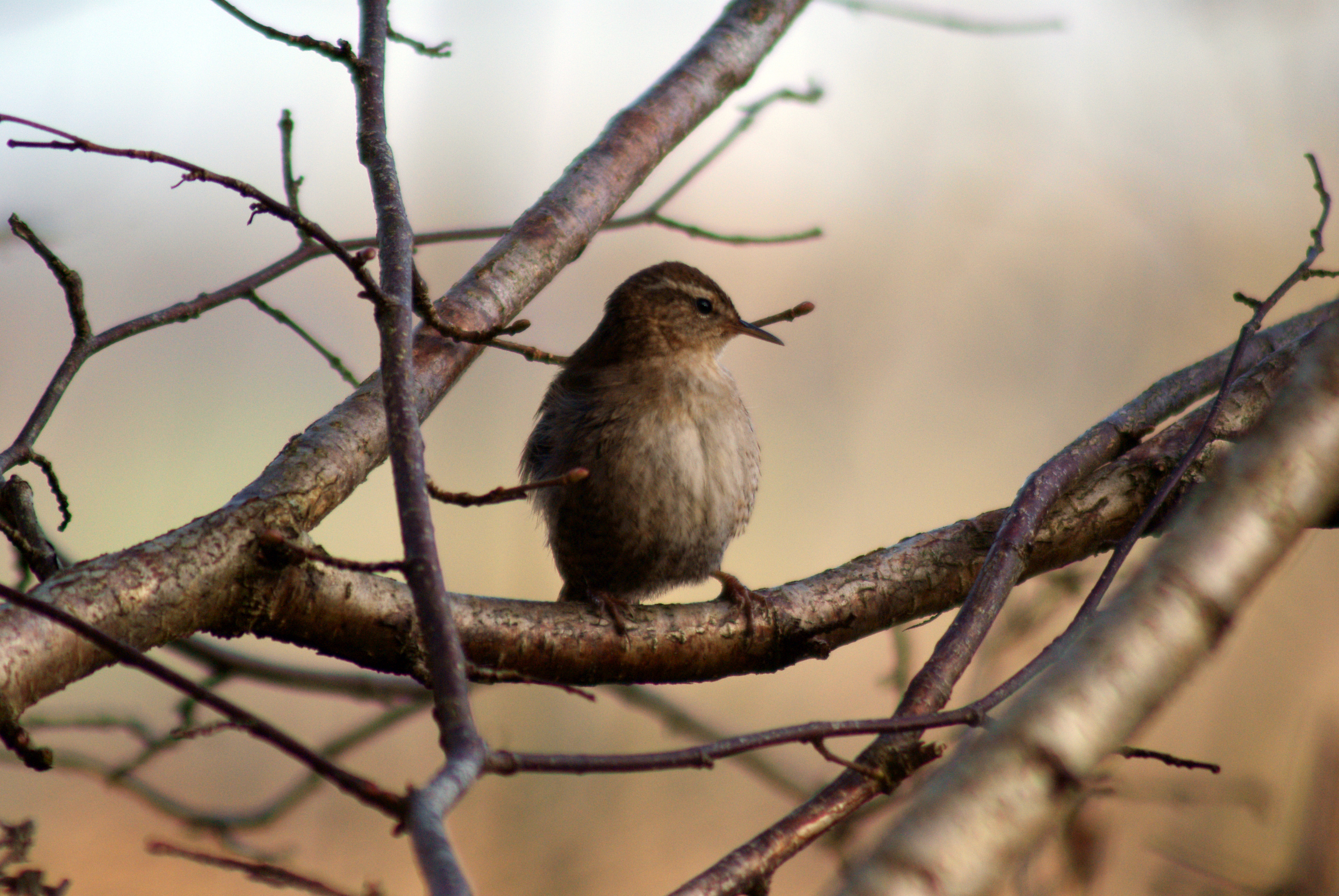 Wren Troglodytes troglodytes indigenus. Leighton Moss, Lancashire, UK.